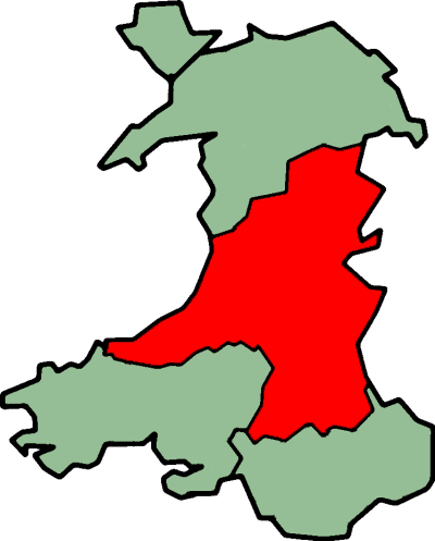 Map of Mid Wales region.